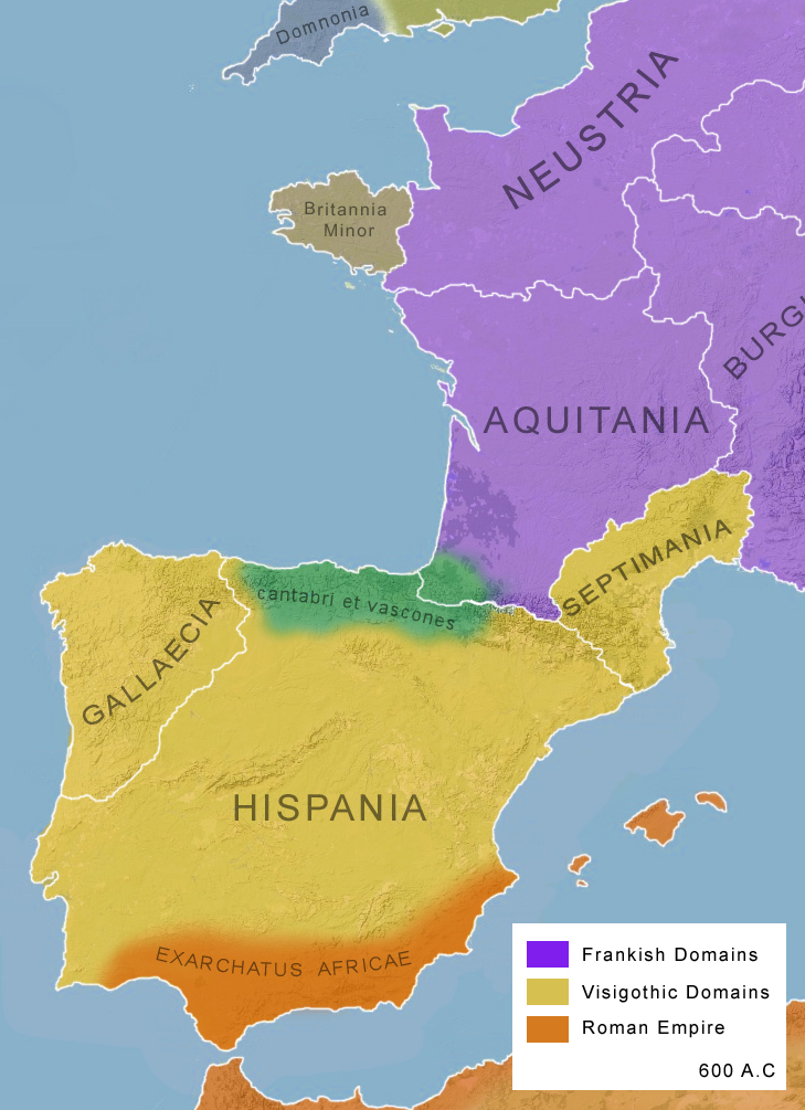 Historical Map of Germanic Kingdoms about 600 AC.